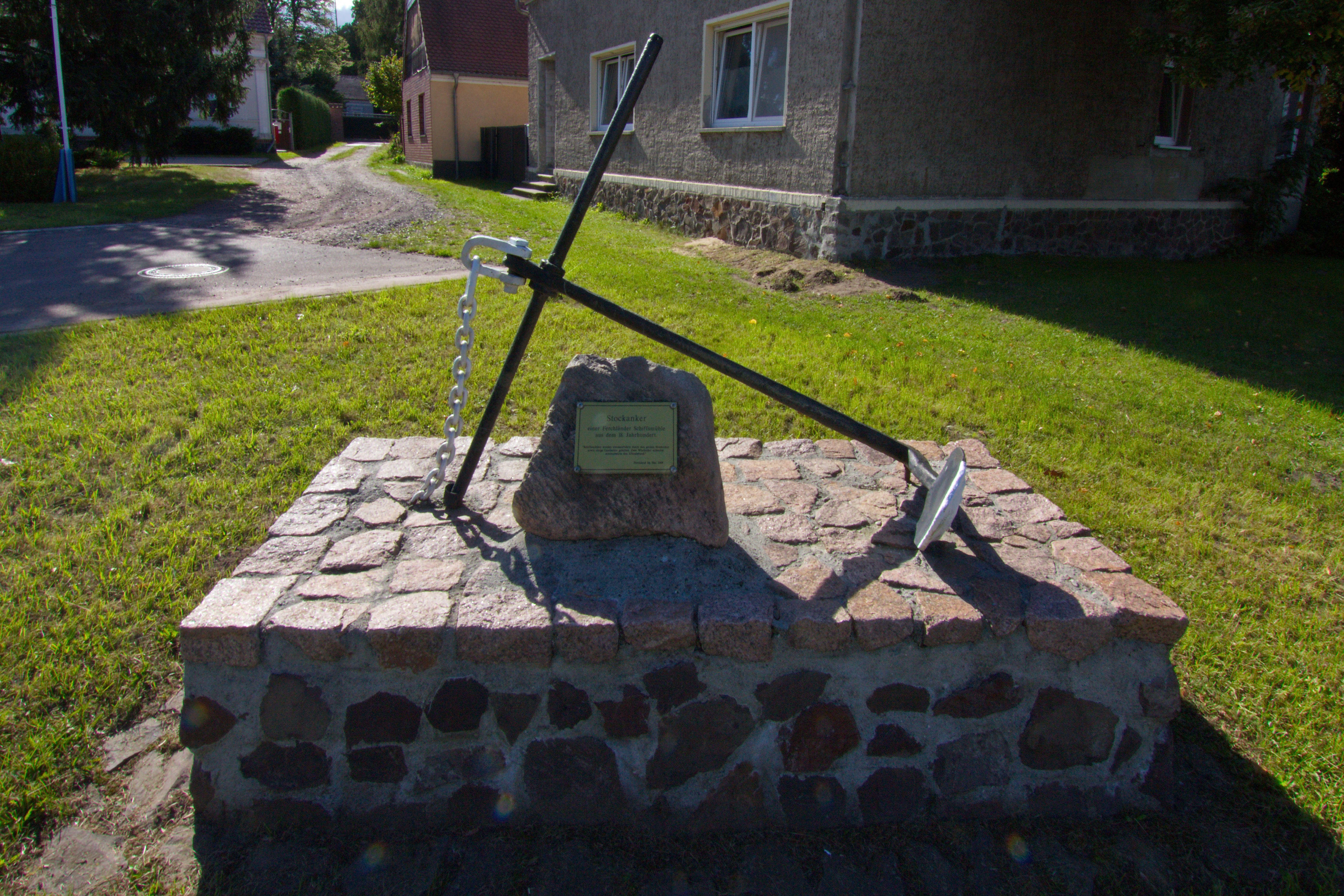 Stockanker einer Schiffsmühle aus dem 18. Jahrhundertin Ferchland (Elbe-Parey), Sachsen-Anhalt, Deutschland